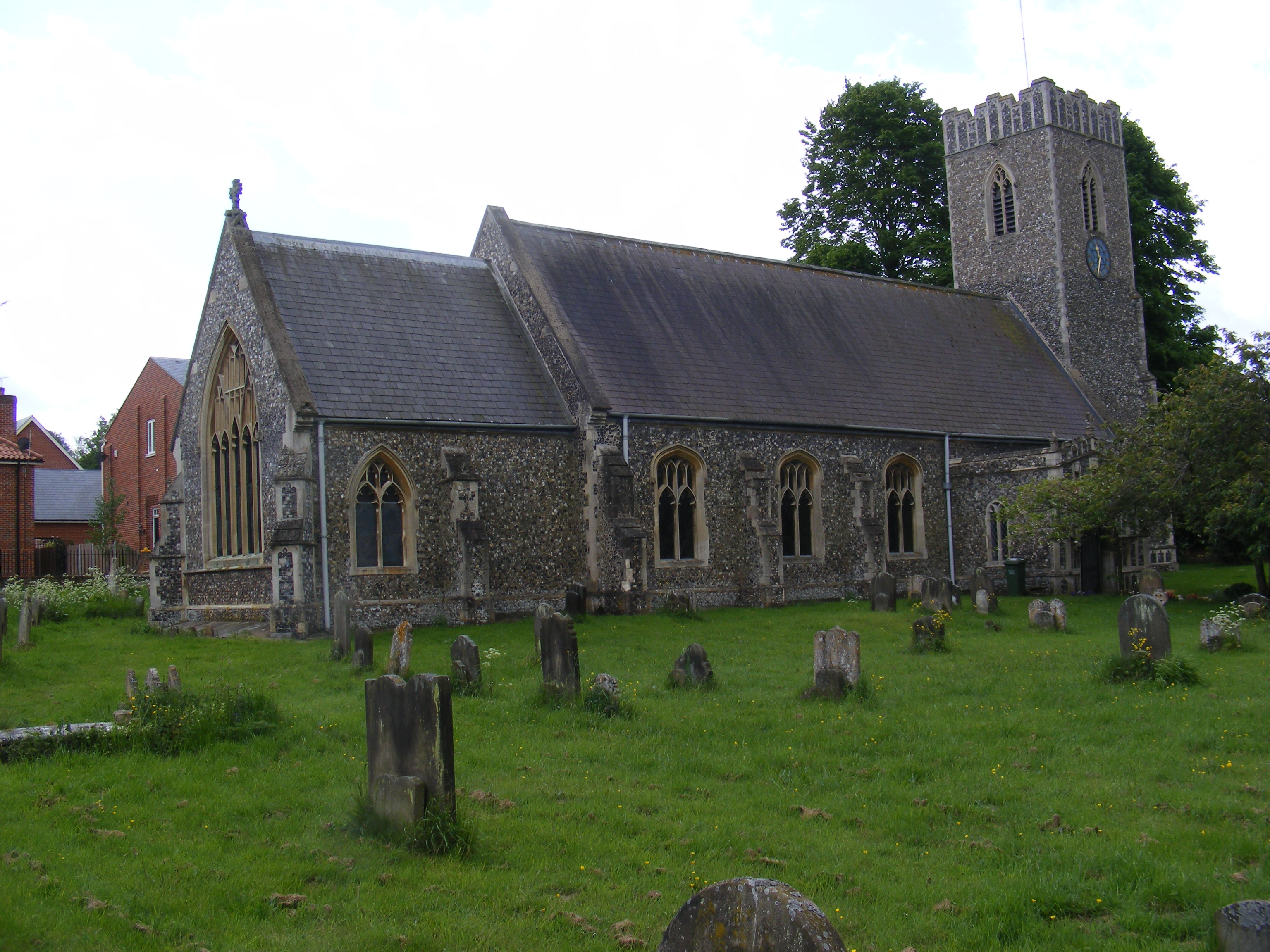 St.Michael's Church,Peasenhall